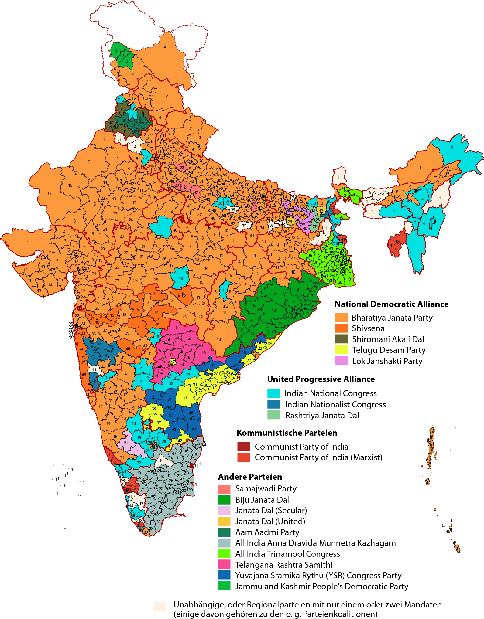 Map showing the results of the Indian general election, 2014. PLEASE REPORT ANY ERRORS ! 1. United Progressive Alliance Indian National Congress Nationalist Congress Party Rashtriya Janata Dal (in Bihar) 2. National Democratic Alliance Bharatiya Janata Party Shiv Sena (in Maharashtra) Telugu Desam Party (in Andhra Pradesh) Janata Dal (United) (in Bihar) Lok Janshakti Party (in Bihar) Shiromani Akali Dal (in Punjab) 3. Others Communist Party of India (Marxist) Communist Party of India Biju Janata Dal (in Odisha) Janata Dal (Secular) (in Karnataka) Aam Aadmi Party All India Trinamool Congress (in West Bengal) Samajwadi Party (in Uttar Pradesh) All India Anna Dravida Munnetra Kazhagam (in Tamil Nadu) Telangana Rashtra Samithi (in Andhra Pradesh) Yuvajana Sramika Rythu (YSR) Congress Party (in Andhra Pradesh) Jammu and Kashmir People's Democratic Party (in Jammu & Kashmir) Independent candidates or small regional parties (some of them belong to the above mentioned alliances)